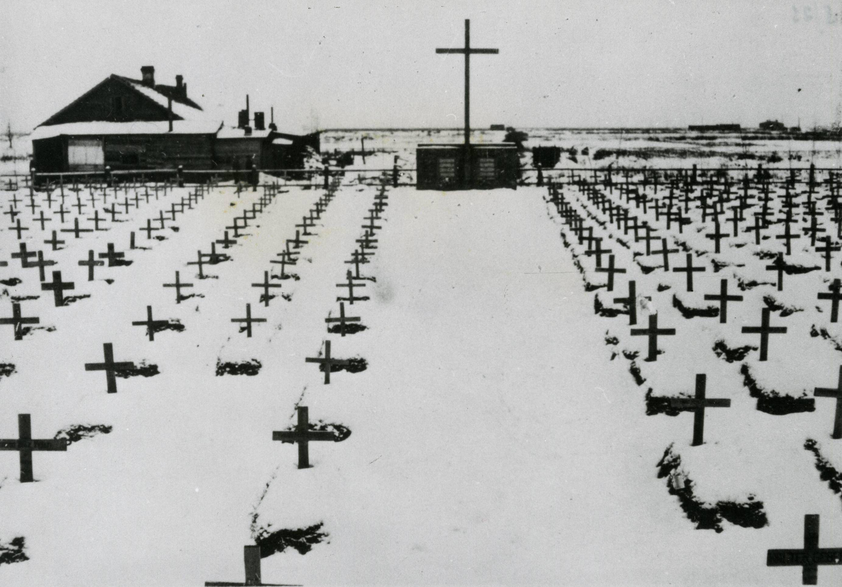 Cemetery and hospital of the Blue Division in Grigorovo, Russia.